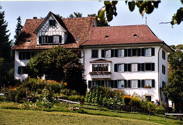 Birth house of Johanna Spyri, author of Heidi, in Hirzel, Canton of Zürich, Switzerland.